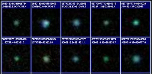 Pea Scientific Montage